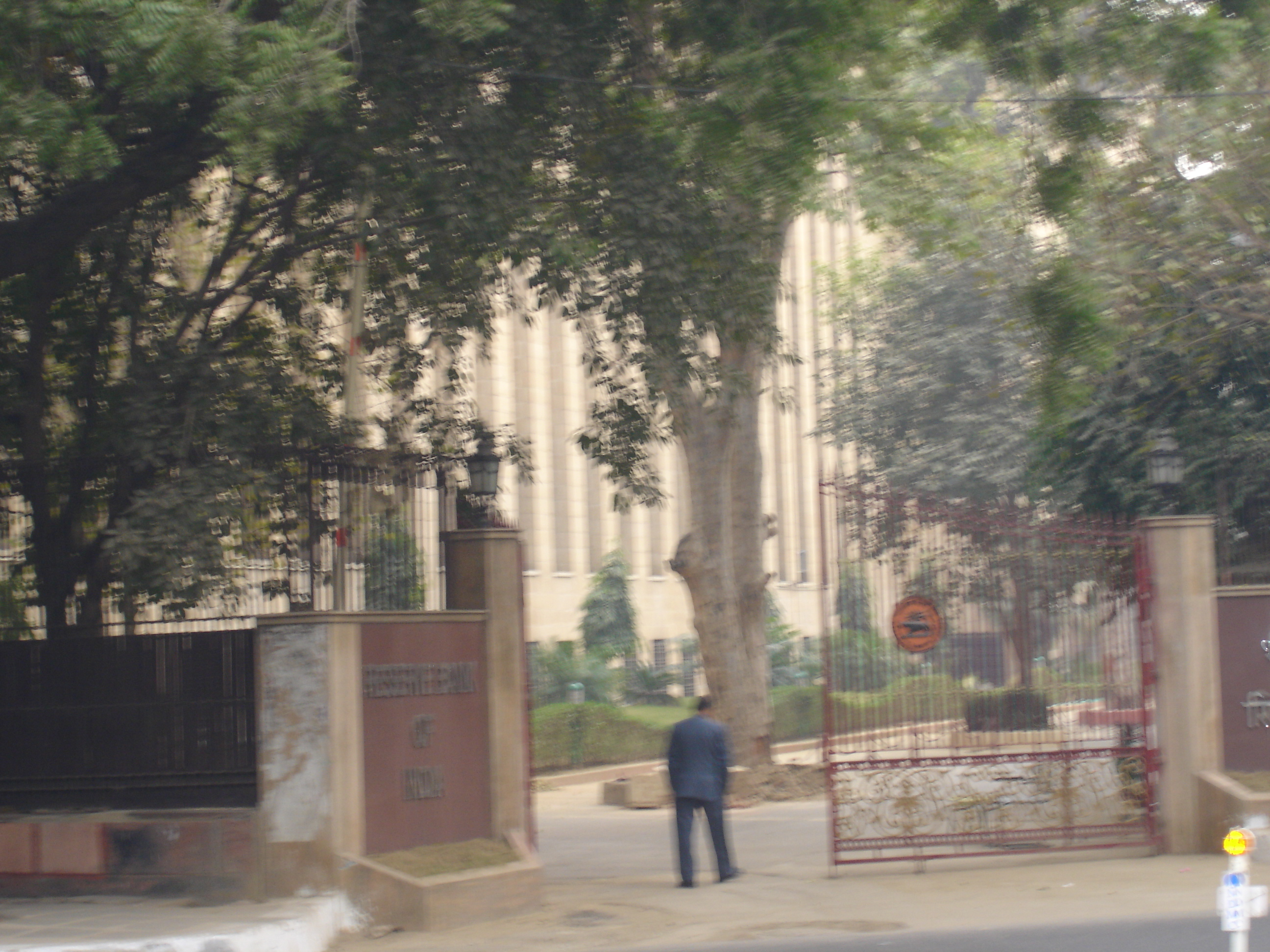 The RBI headquarters in Delhi